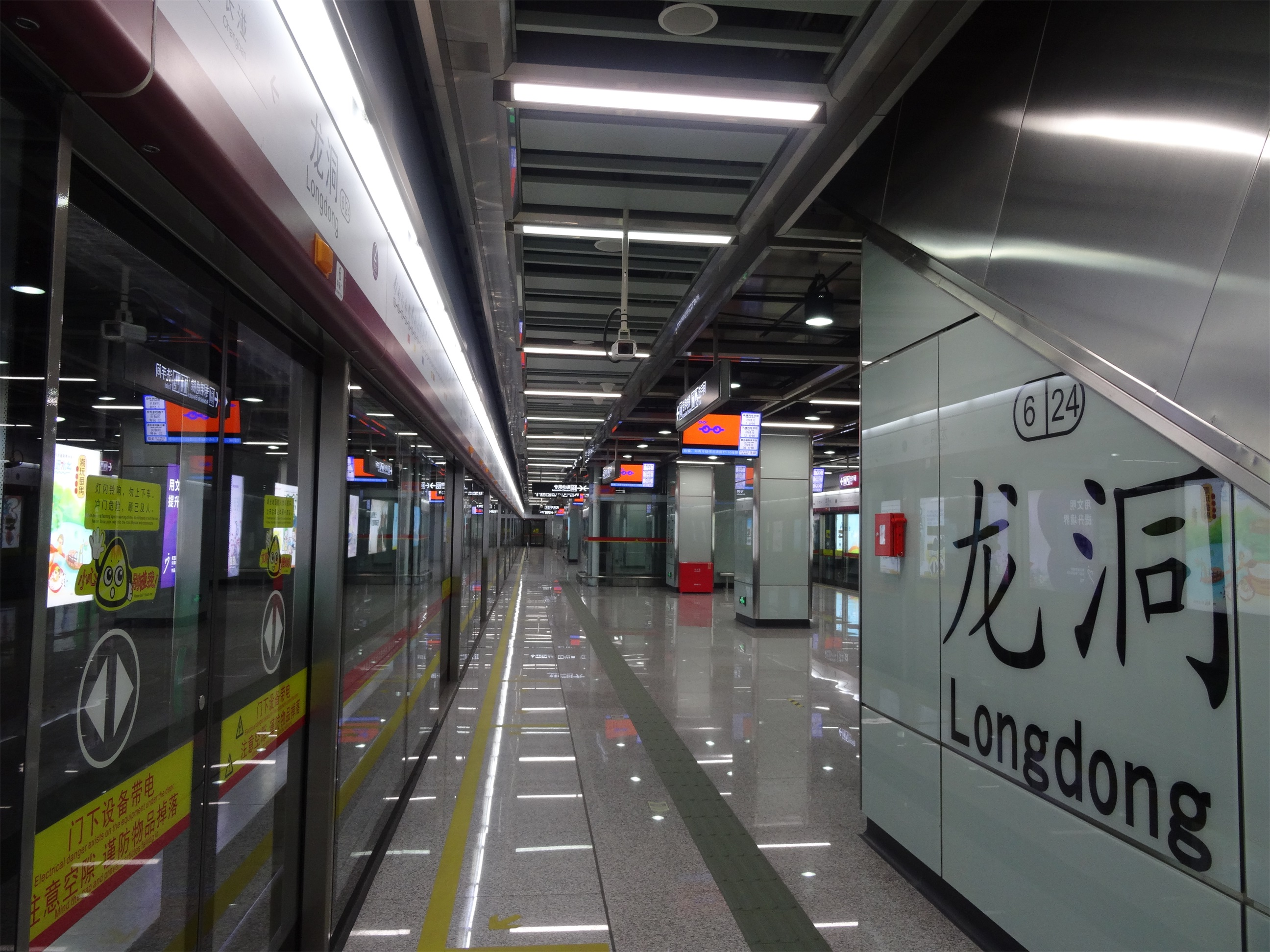 广州地铁6号线龙洞站月台